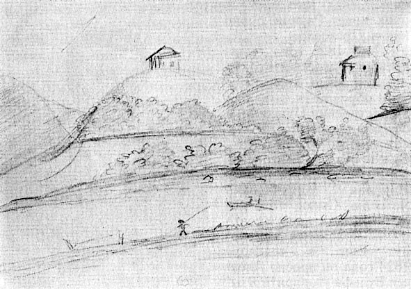 Pushkin A.S.Trigorsky.